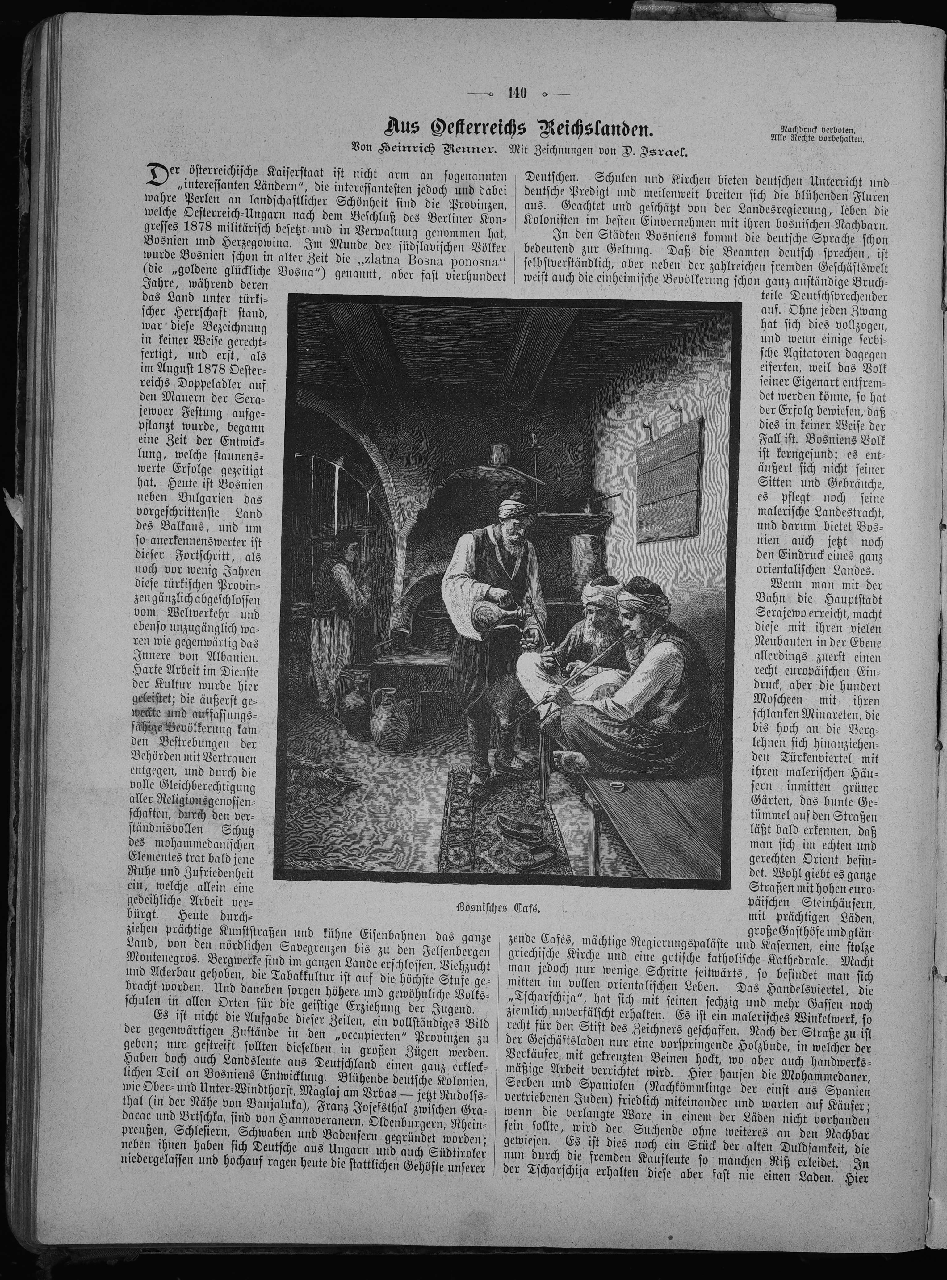 Page 140 from journal Die Gartenlaube for 1894. Extracted image (if any): File:Die Gartenlaube (1894) b 140.jpg - hi res, ~2.5 MB.